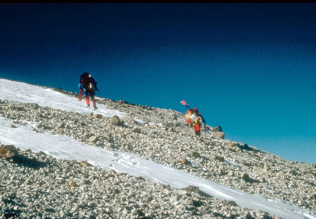 U.S. Geological Survey climbing party reaching the east rim of the summit caldera on 4,766-m (15,636 ft)-high Mount Churchill, site of two of the most voluminous explosive eruptions in North America in the past 2,000 years. Blocky debris in the photo consists of pumice and lithic fragments ejected 1,250 years ago. This deposit forms the eastern lobe of the White River Ash. Wrangell-St. Elias National Park and Preserve, Alaska, USA